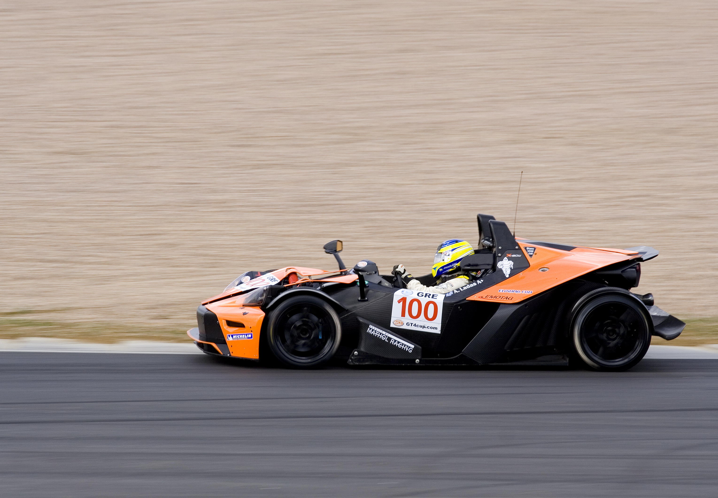 GT4 European Cup Race 1 - KTM X-Bow (Ladas Racing)